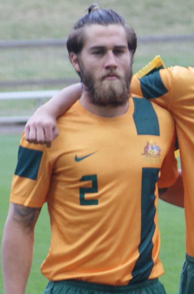 Young Socceroos vs New Zealand